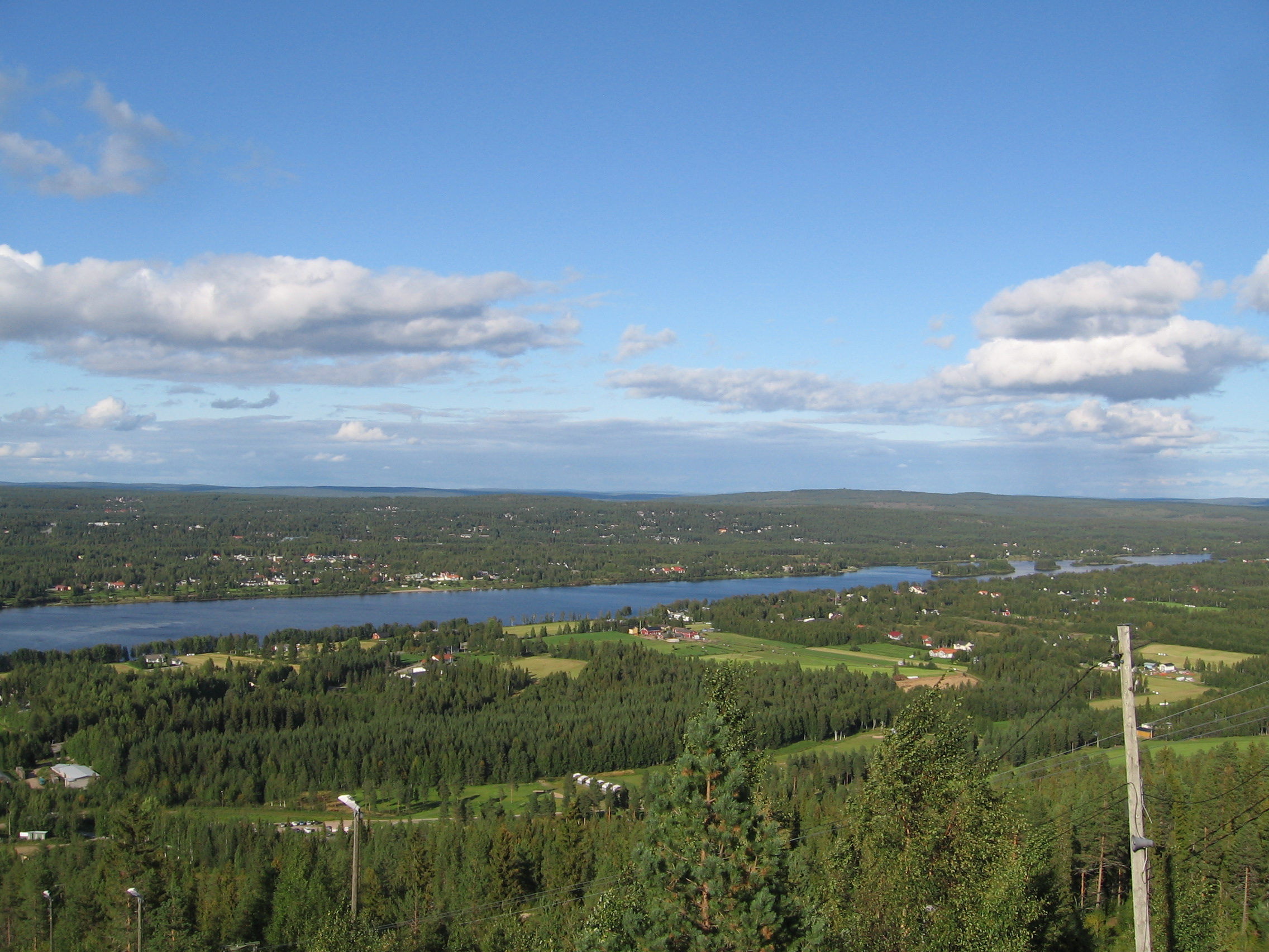 A view from the top of Tottorakka ski slope (Ounasvaara hill, Rovaniemi, Finland) towards NE in August 2014. Koskenkylä suburb is seen on this side and some parts of Saarenkylä and Nivavaara suburbs on the far side of river Kemijoki. At the bottom of the hill parts of Santa Claus Golf Club's range are visible.